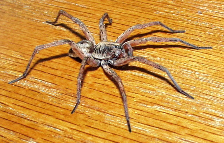 Wolf spider on wood, Tigrosa helluo, photographed 2004 in Winston-Salem, NC area